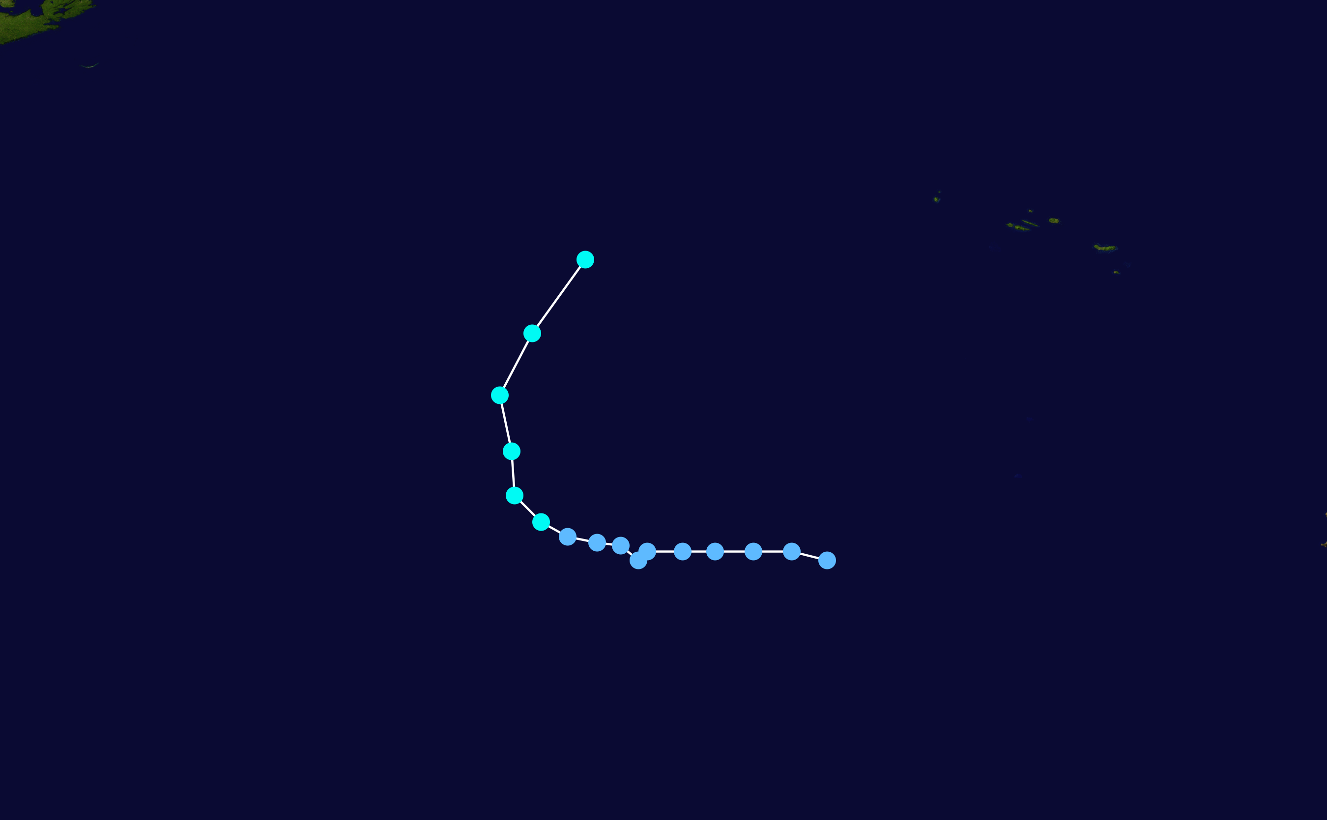 Track map of Tropical Storm Lorenzo of the 2001 Atlantic hurricane season. The points show the location of the storm at 6-hour intervals. The colour represents the storm's maximum sustained wind speeds as classified in the Saffir–Simpson scale (see below), and the shape of the data points represent the nature of the storm, according to the legend below. Saffir–Simpson scale Tropical depression≤38 mph≤62 km/h Category 3111–129 mph178–208 km/h Tropical storm39–73 mph63–118 km/h Category 4130–156 mph209–251 km/h Category 174–95 mph119–153 km/h Category 5≥157 mph≥252 km/h Category 296–110 mph154–177 km/h Unknown Storm type Tropical cyclone Subtropical cyclone Extratropical cyclone / Remnant low / Tropical disturbance / Monsoon depression